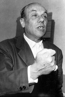 Italian fascist politician, Junio Valerio Borghese (1906-1974)